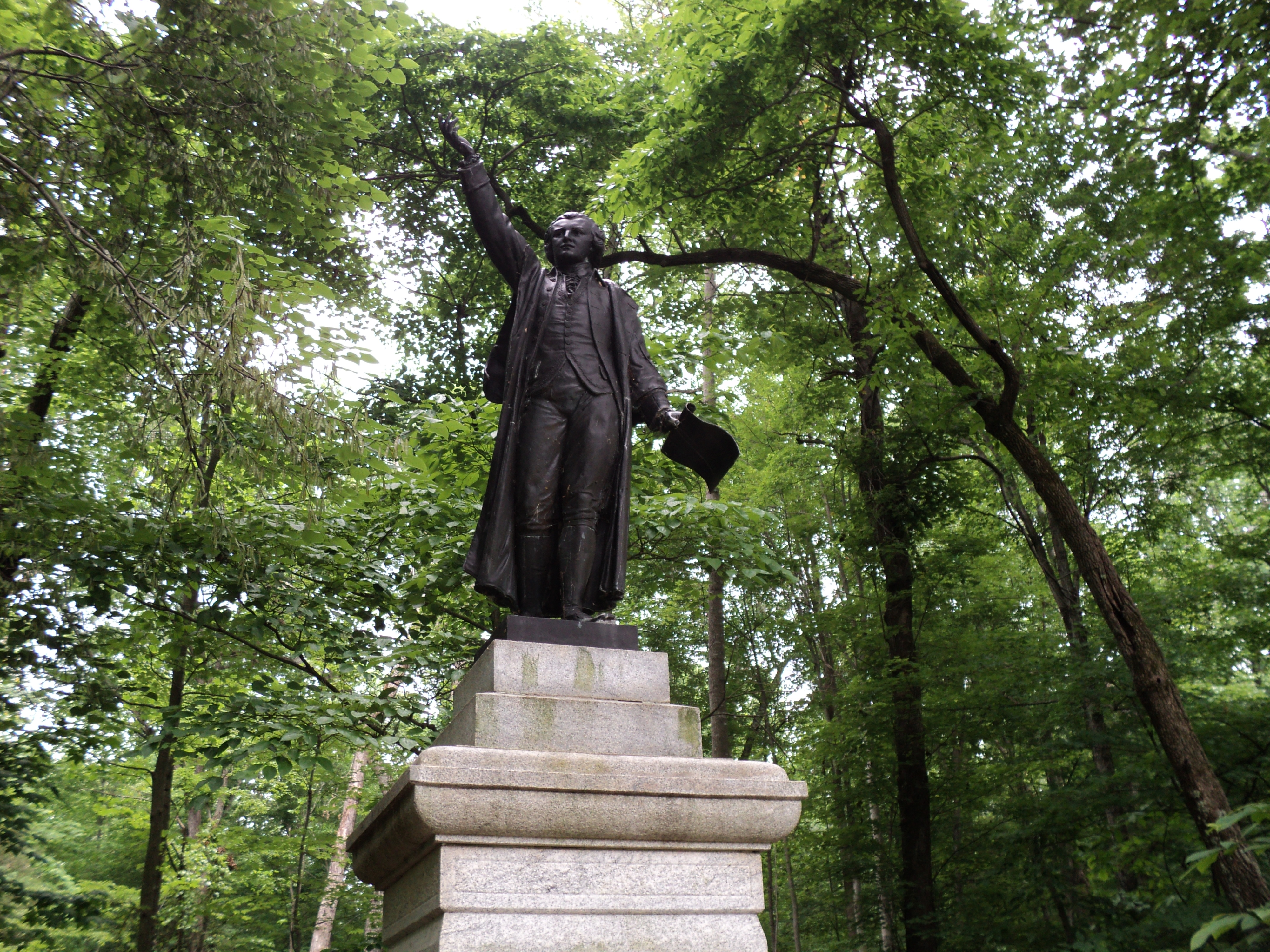 View of the Signers Monument, Guilford Courthouse National Military Park, near present-day Greensboro, North Carolina.